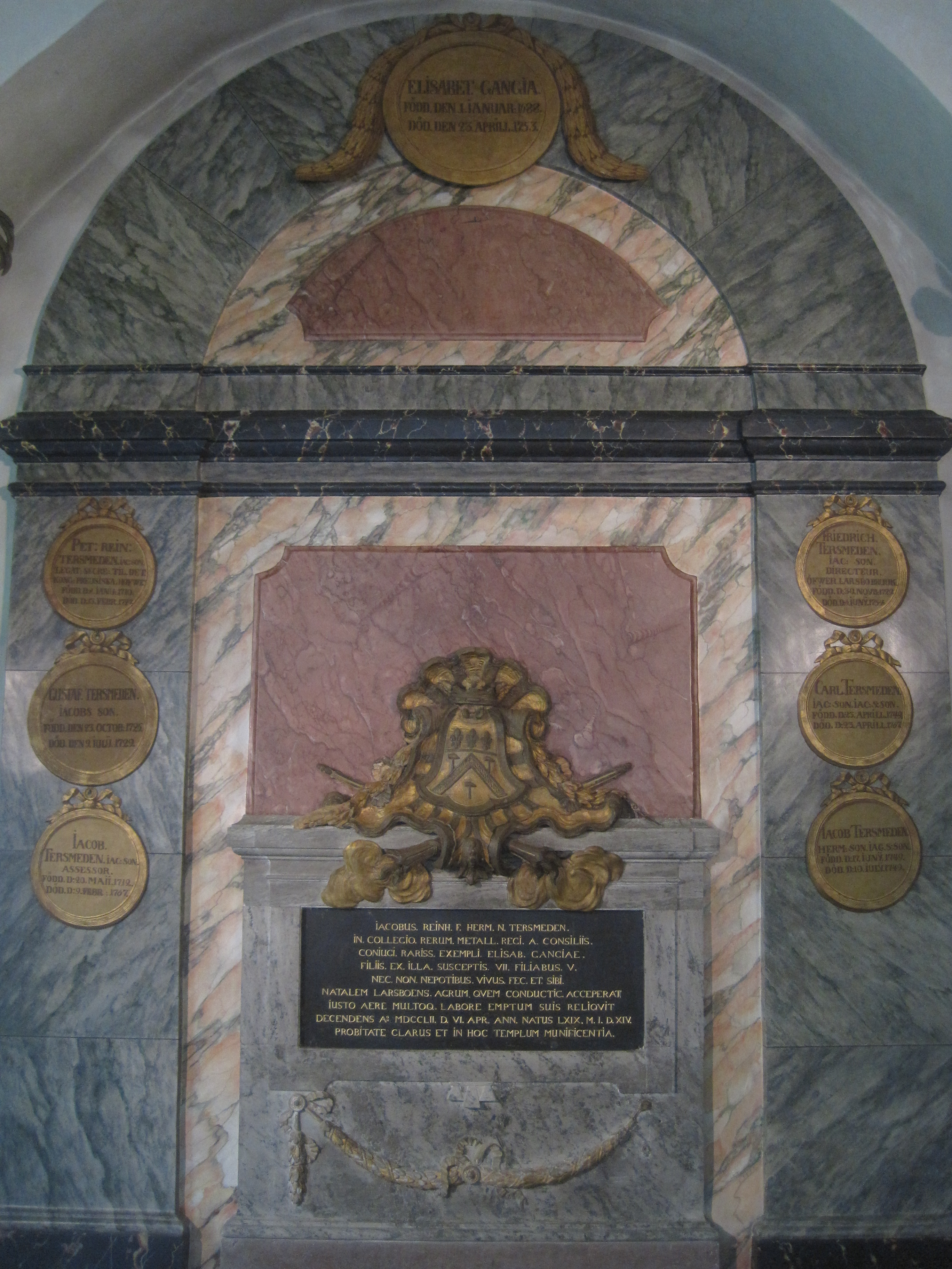 The interior of the Tersmeden family chapel of Söderbärke kyrka, Sweden.